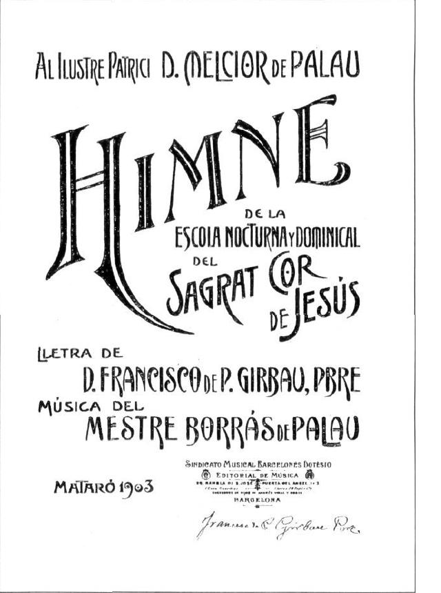 Sheet music from Juan Borràs de Palau, 1903